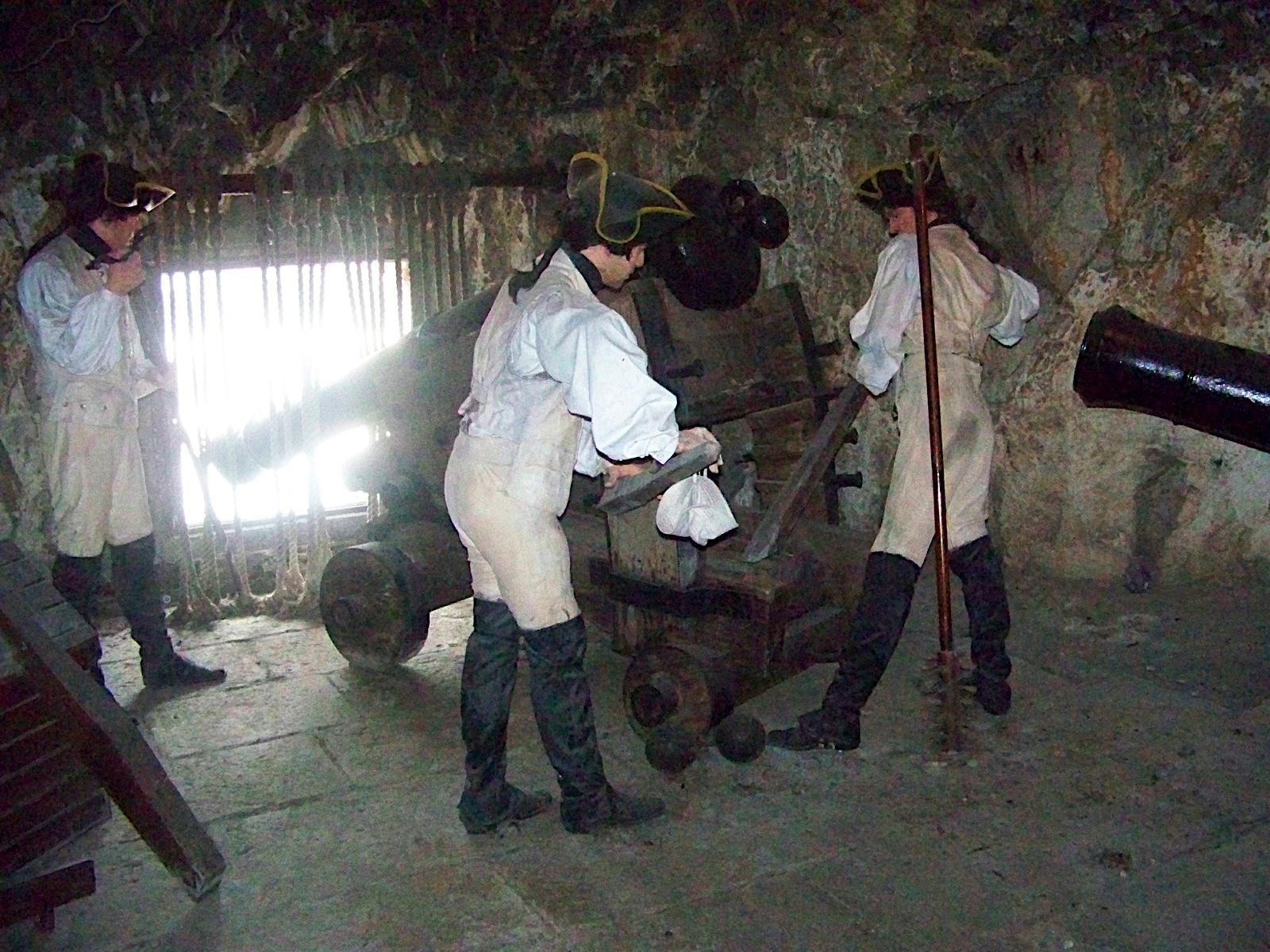 Exhibition showing how the Koehler depression carriage was put in use to fire guns downwards in the Great Siege Tunnels in the Rock of Gibraltar.